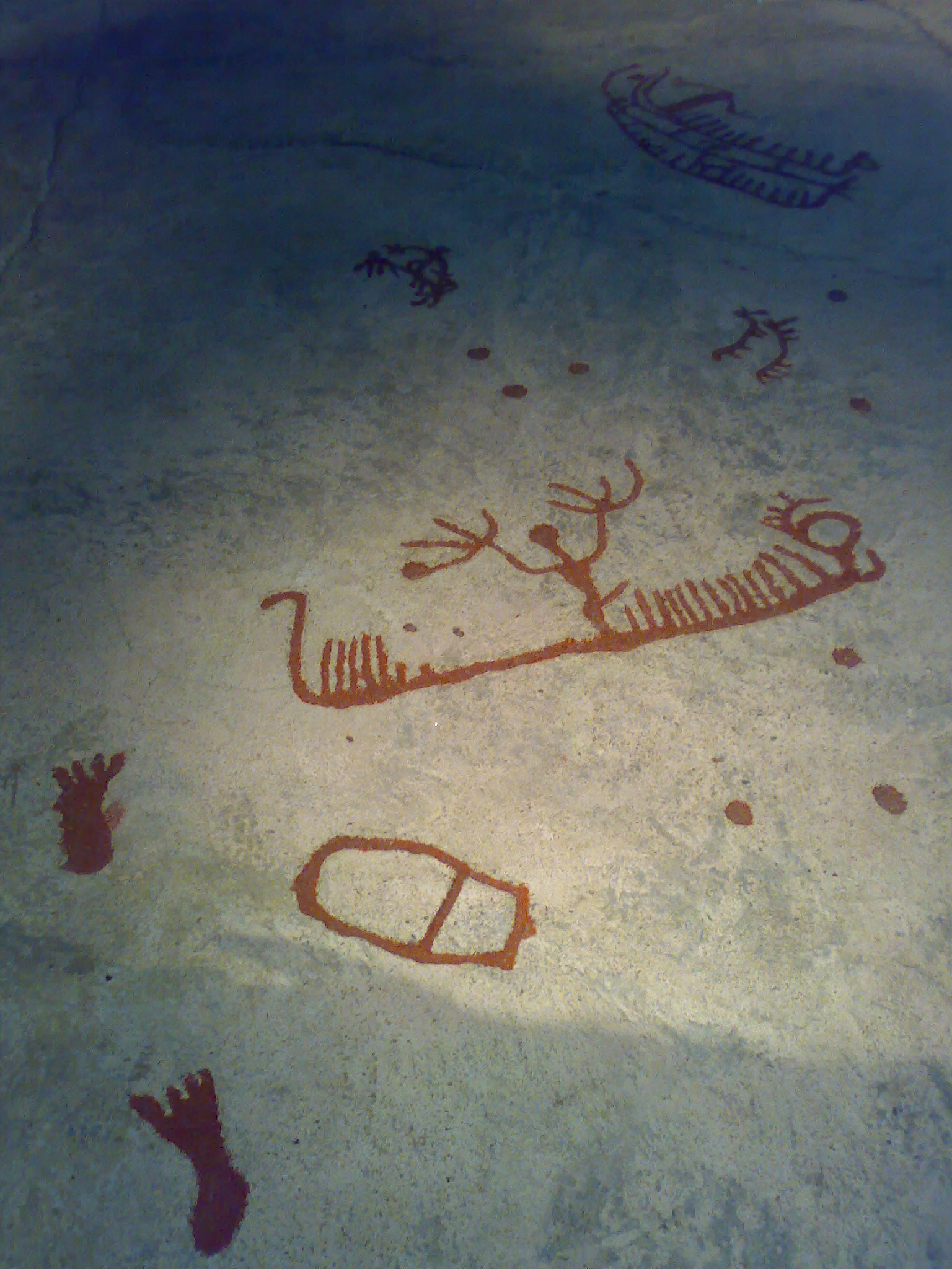 Detail from Horsahallen rock-paint field, Stone Age, Möckleryd, Torhamn socken (parish), Blekinge, Sweden. This is in total the largest rock-paint field in Blekinge.